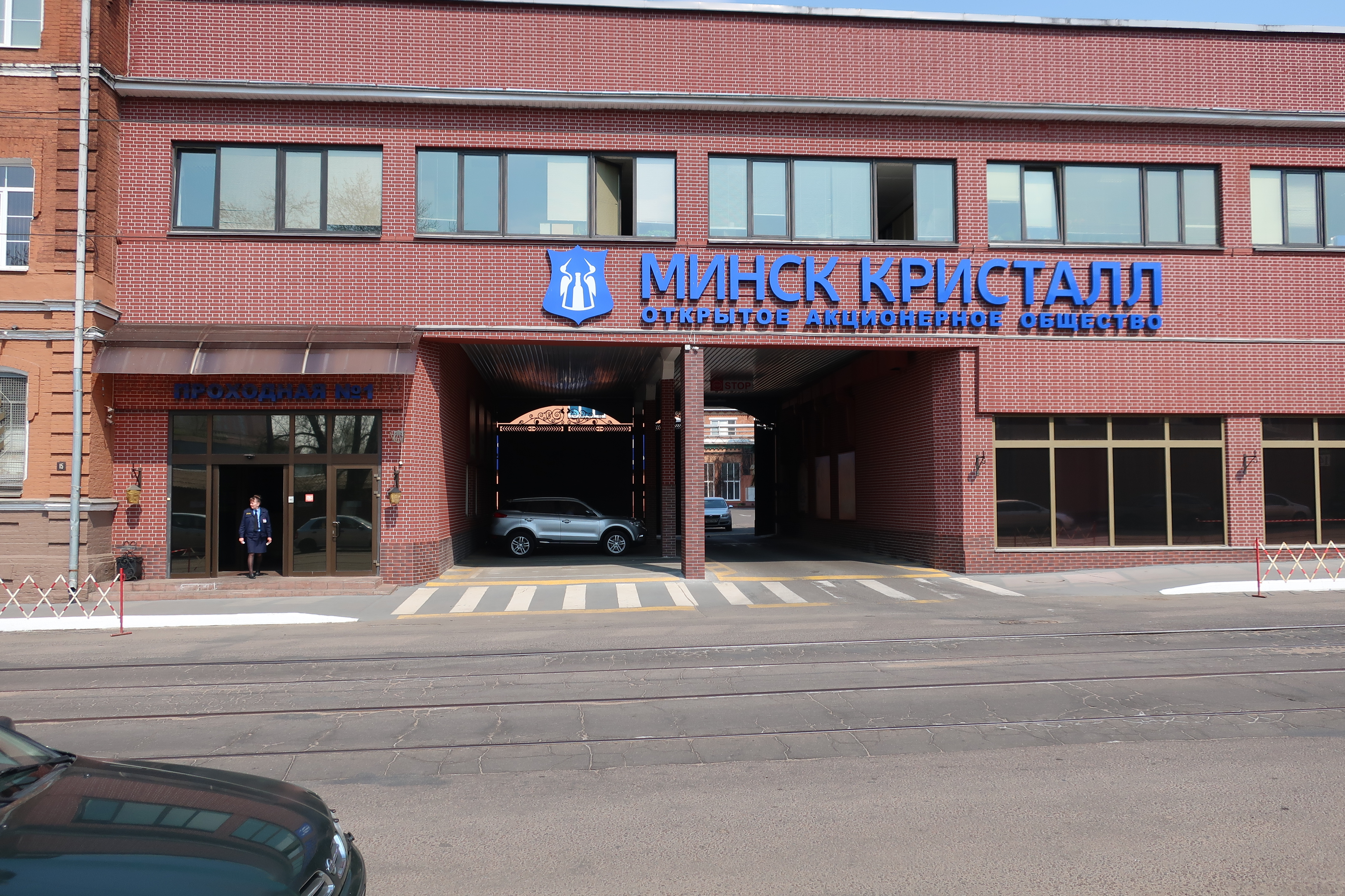 Minsk Kristall liquor plant (Minsk, Belarus)